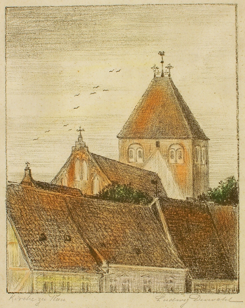 St. Mary Church in Plau am See